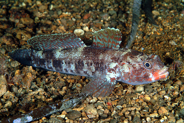 Gobius cruentatus photographed in Tuscany (Italy). Photo by Stefano Guerrieri.